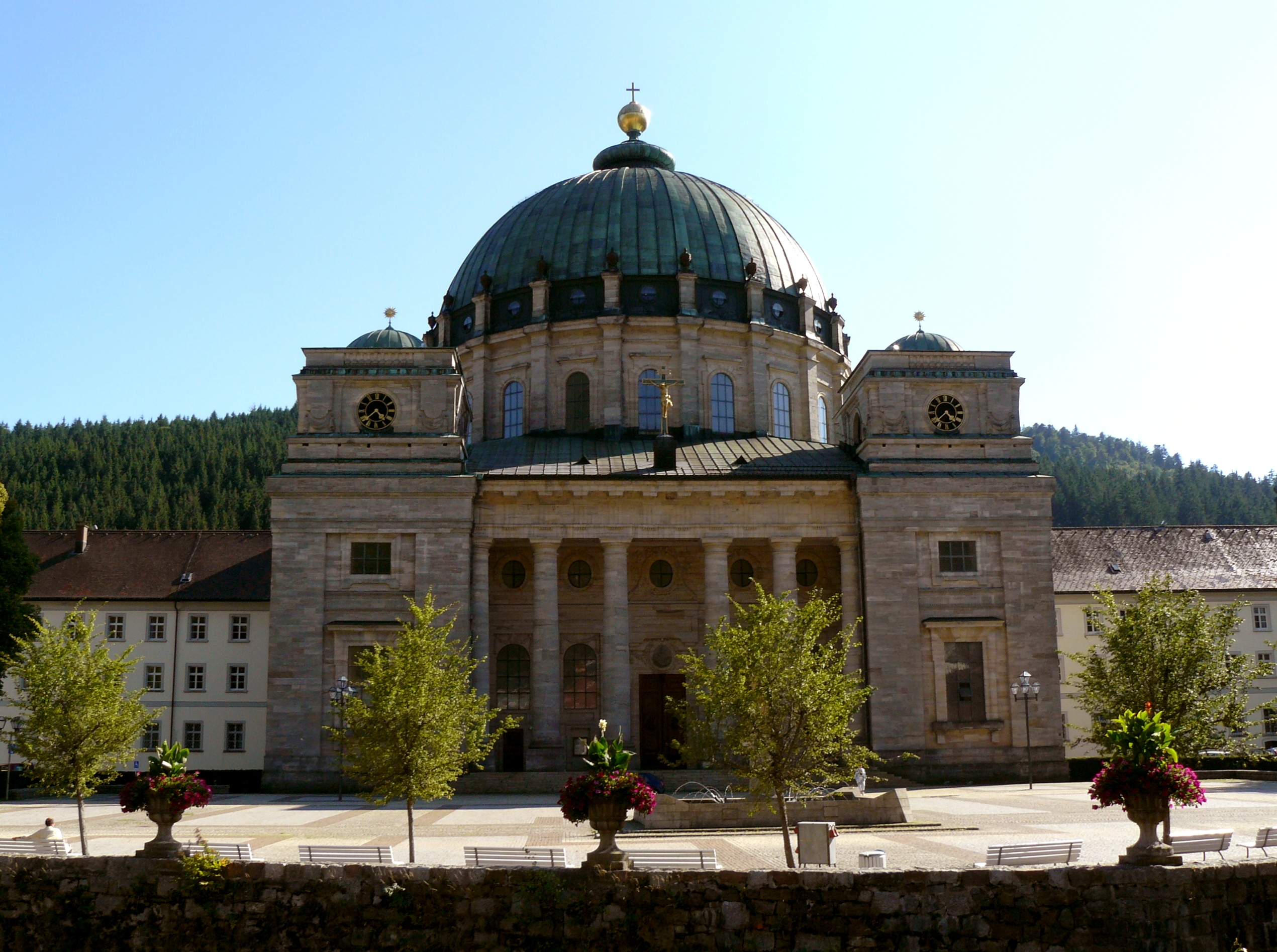 Front view of the cathedral of St. Blasien with Fountain ("Brunnen") by Walter Schelenz